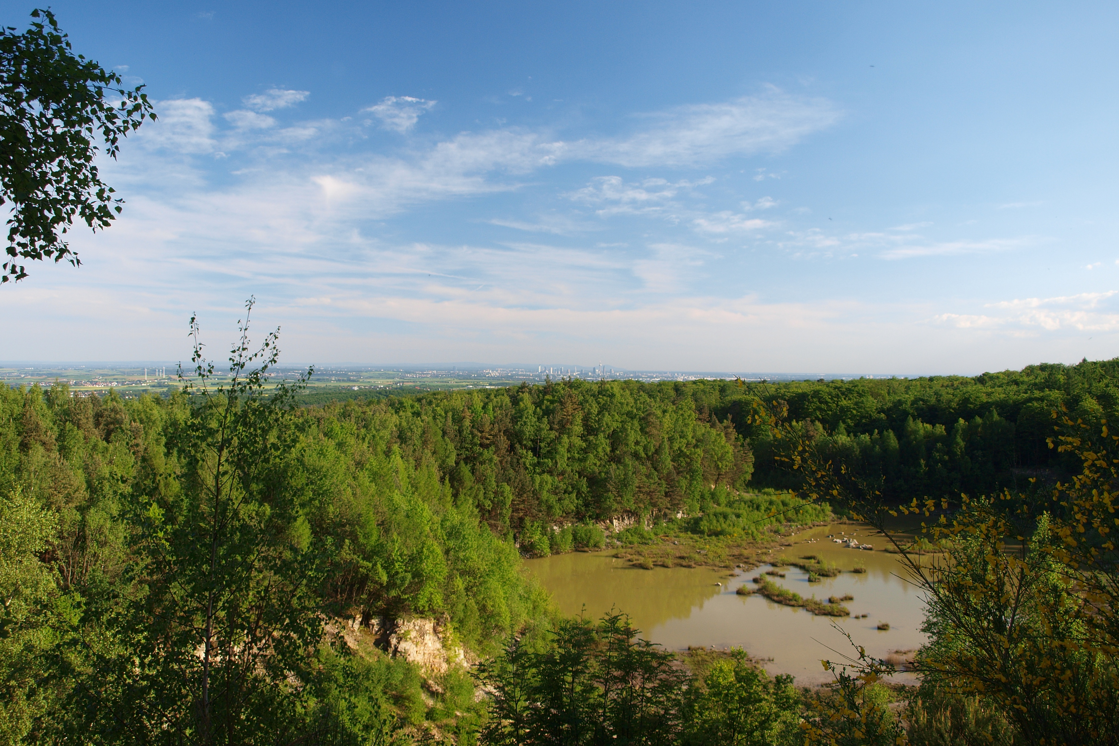 Nature reseve Quarzitbruch bei Rosbach, former quartzite quarry near Rosbach vor der Höhe, view from an upper lookout point, in the background on the left the Wetterau, on the right Frankfurt am Main and the Odenwald